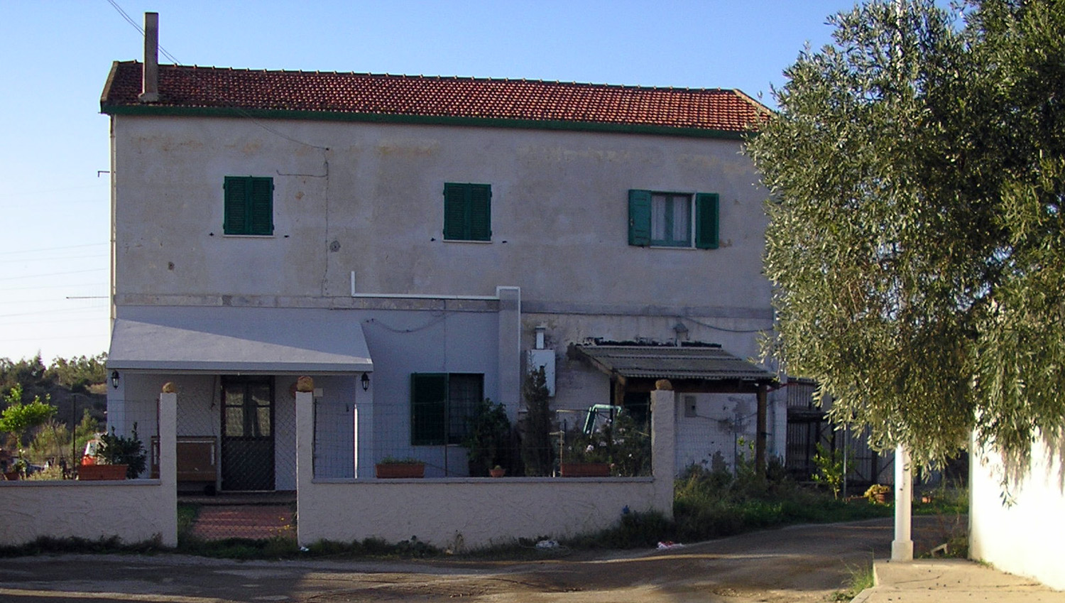 The former passenger building of the railway station of Serbariu in Carbonia, Sardinia, Italy, along the San Giovanni Suergiu-Iglesias railway, this one closed in 1974